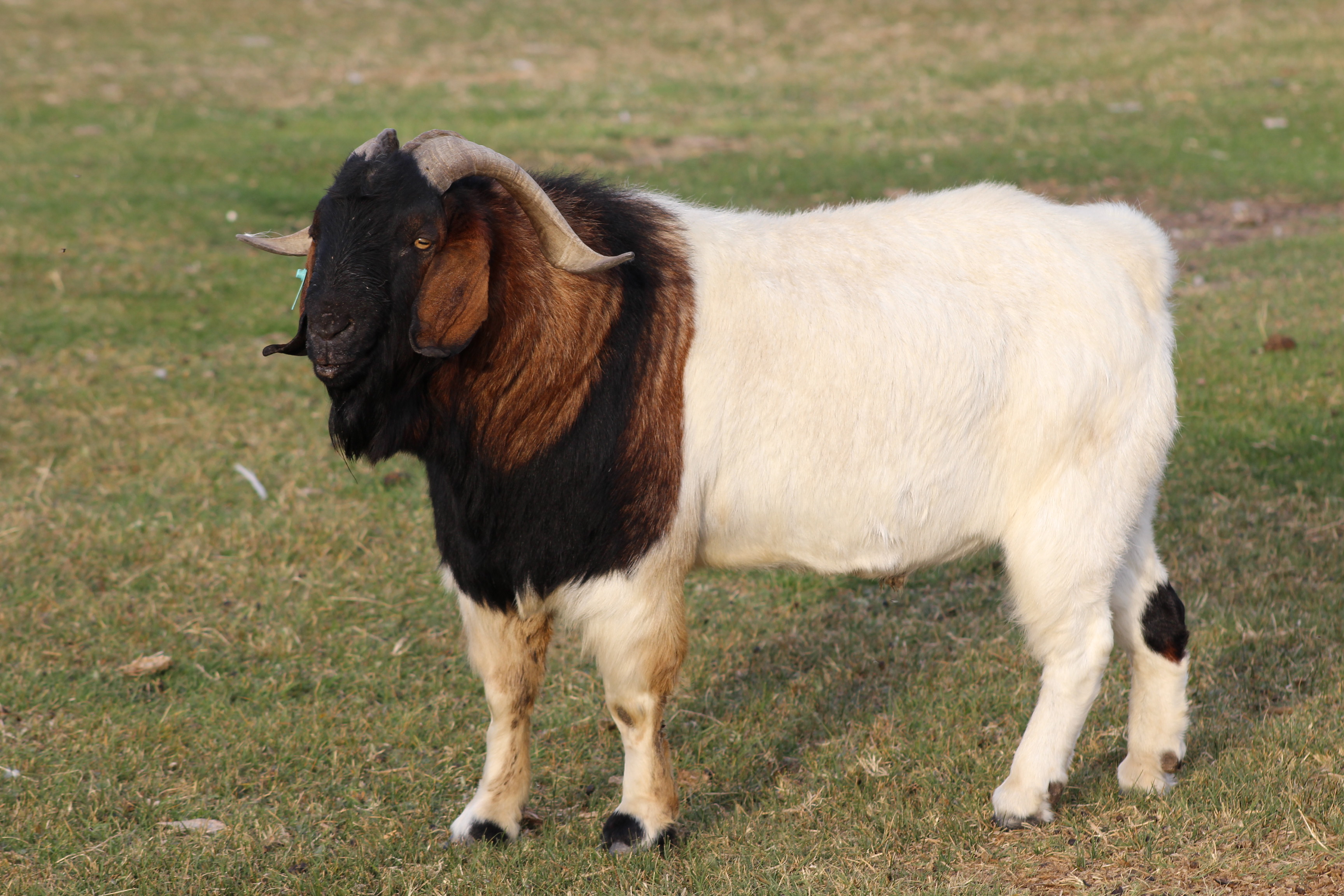 Boer goat in Southern Alberta, Canada